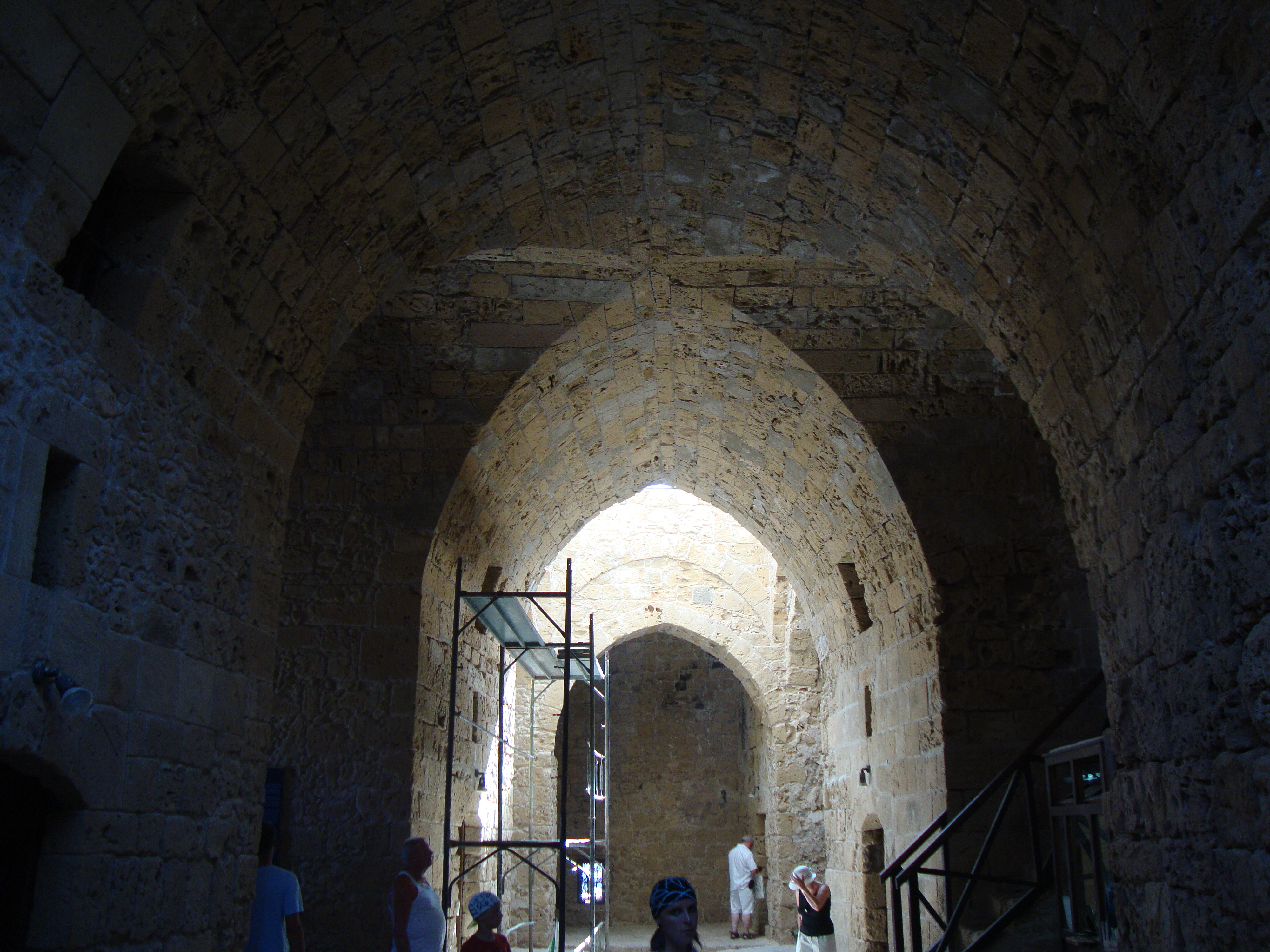 Fort pafos. Interier. 09/2013.